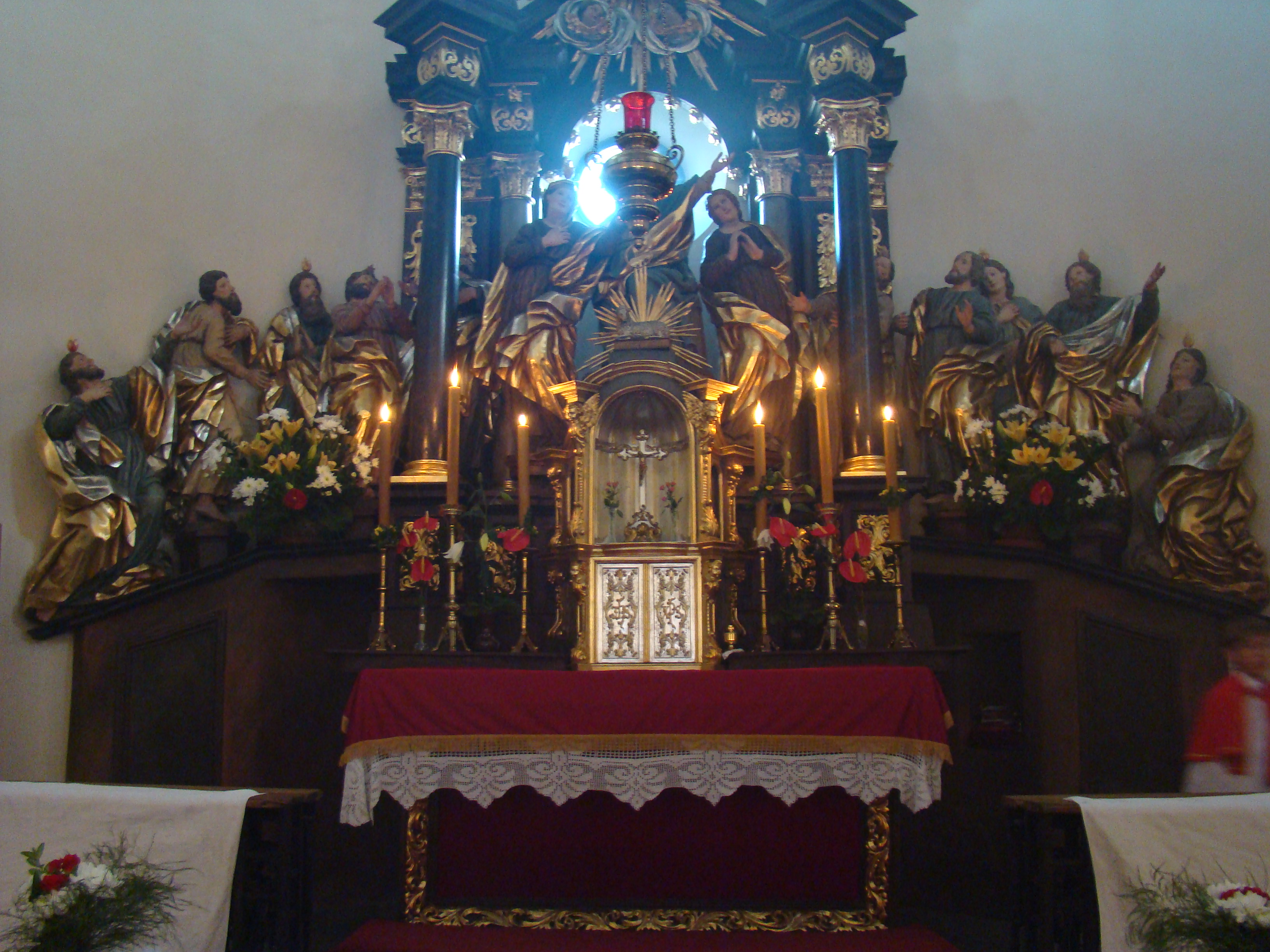 The High Altar in the Holy Spirit Church in Bytom, Poland